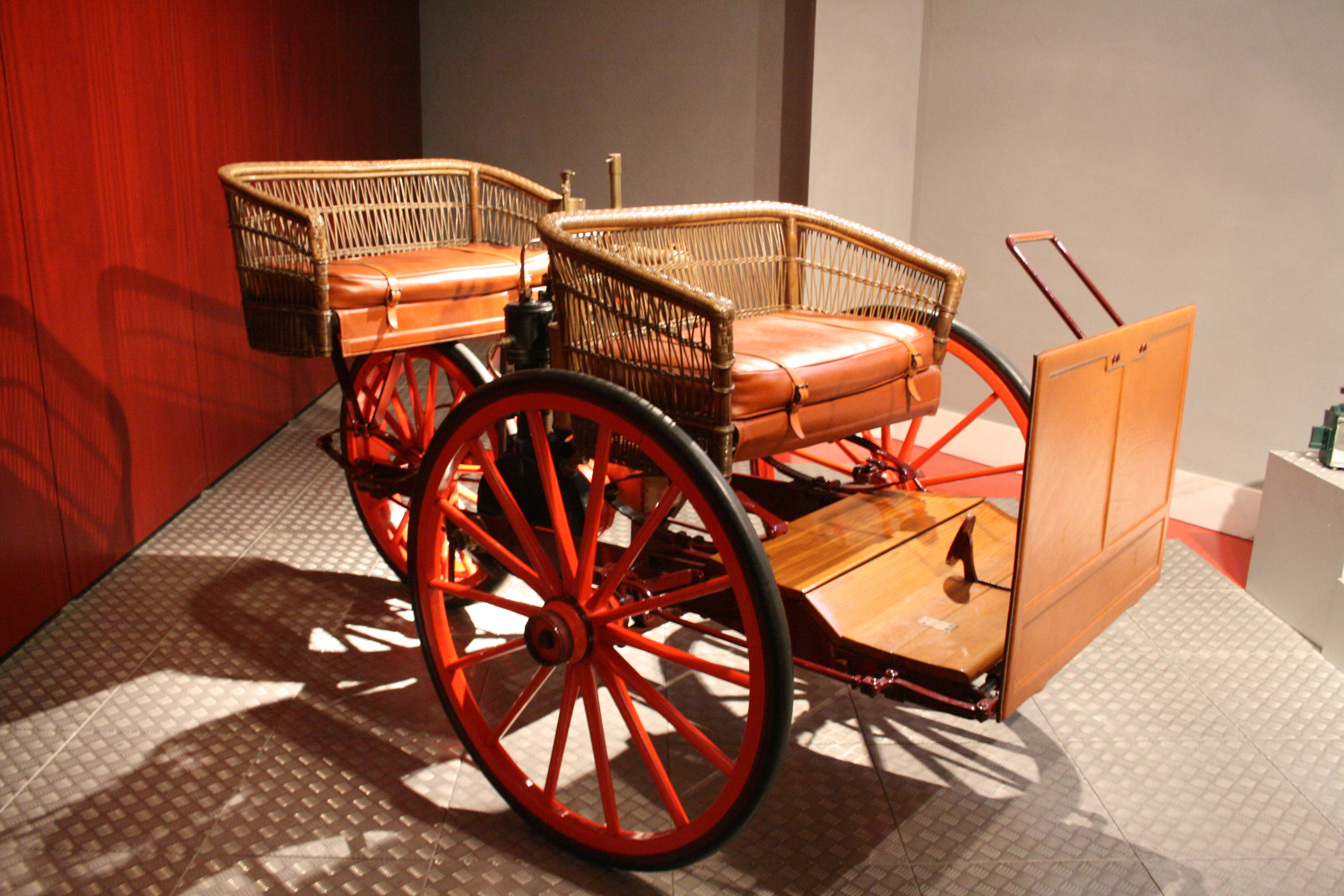 Bonet 1889 in the Museo de Historia de la Automoción Museo de Historia de la Automoción de Salamanca Native nameMuseo de Historia de la Automoción (Salamanca)LocationSalamanca, (Spain)Coordinates40° 57′ 29.73″ N, 5° 40′ 00.95″ W Established2002Web page control : Q6034050 institution QS:P195,Q6034050